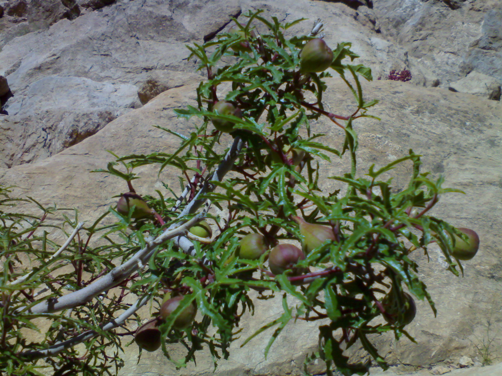 (Wild) Mountain fig, Zibad area, Iran